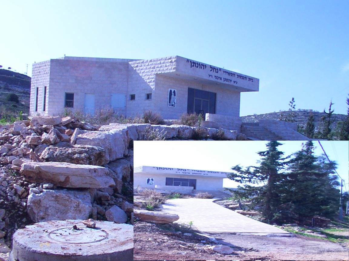 Kedumim_Synagogues_Nachal__Jeonatan